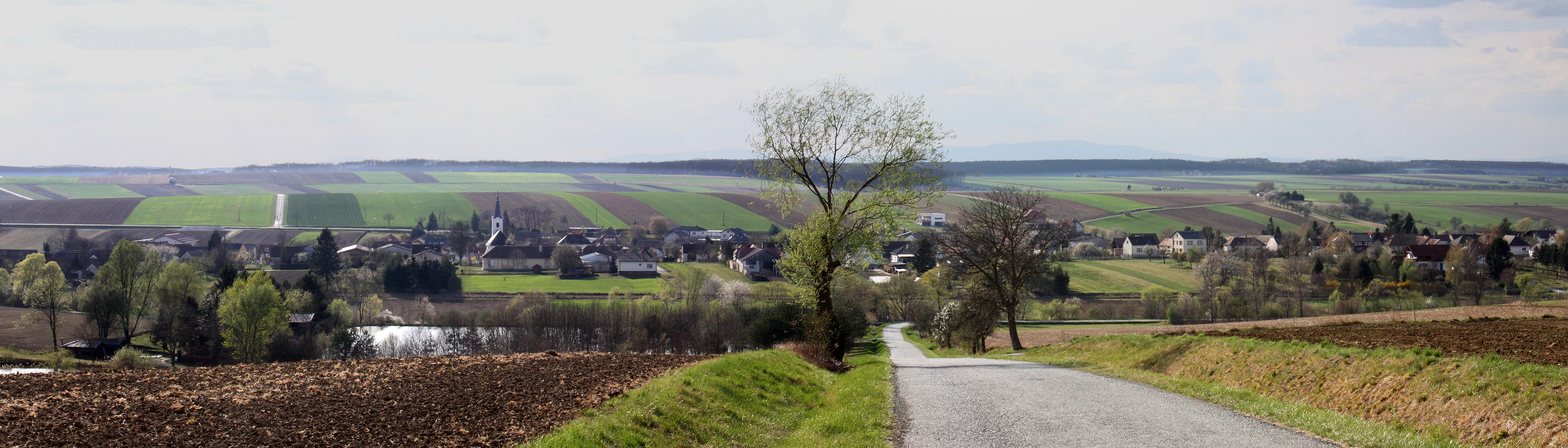 Schandorf - Panorama view (stitch of 2 photos)